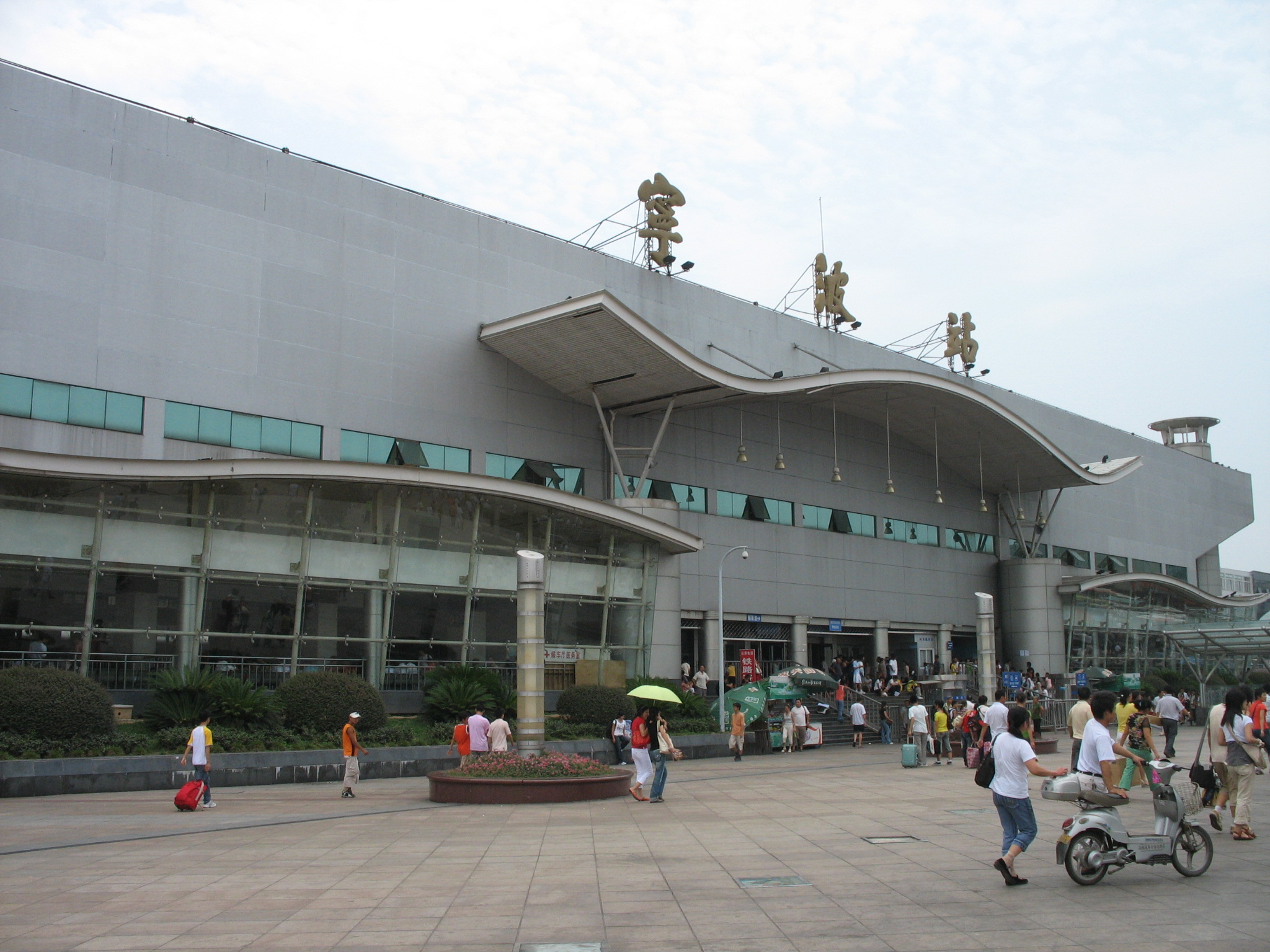 Ningbo Railway Station